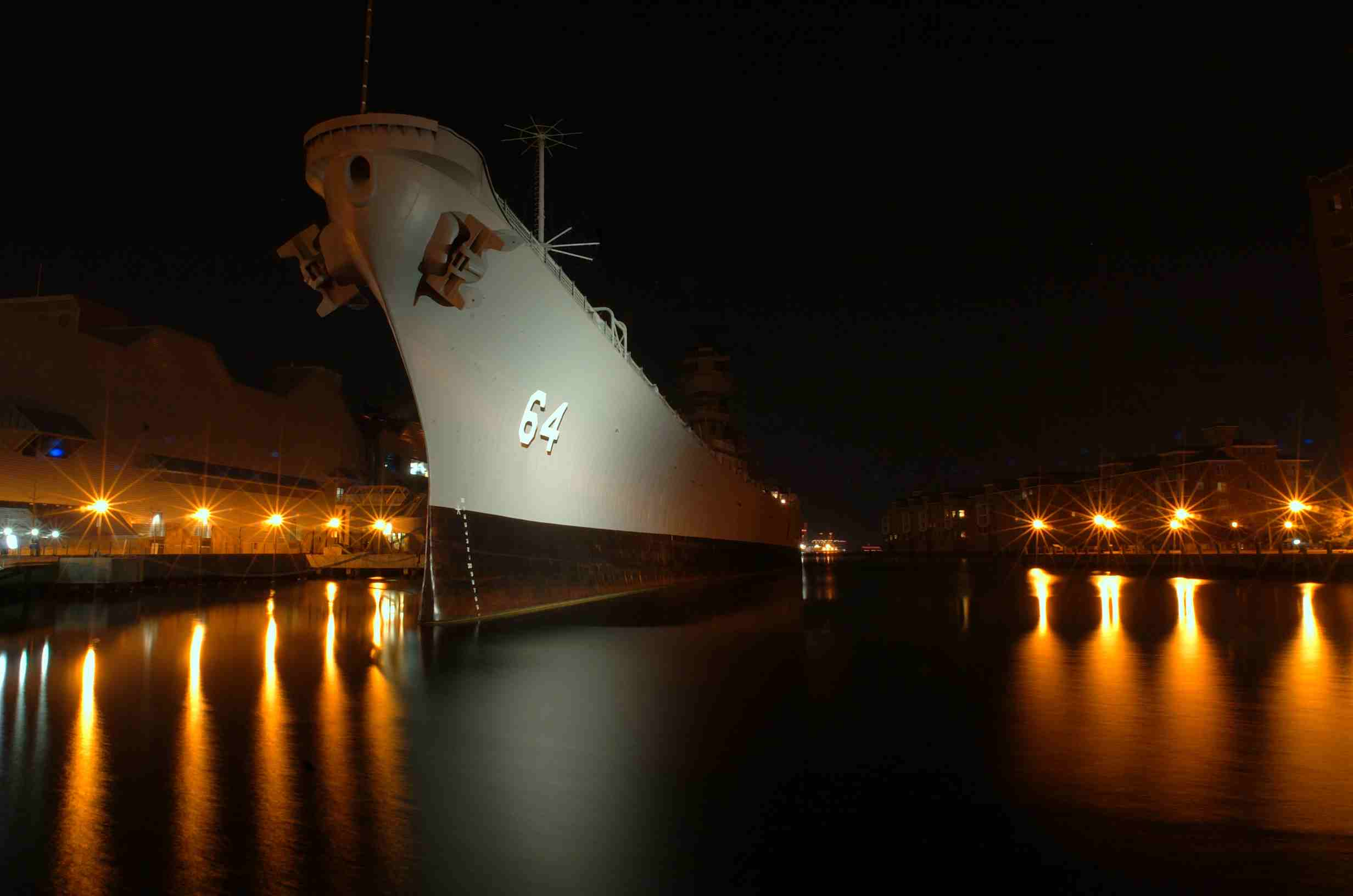 Norfolk, Va. (April 3, 2004) - The battleship USS Wisconsin (BB 64) lies in its birth along the Elizabeth River at the maritime museum Nauticus, in downtown Norfolk, Va. Having fought her first battle in support of the 1945 landings of Iwo Jima, this 60-year-old warrior is now a museum showcase for people of all ages to relive history and learn more about the contributions her crew made to protect freedom. U.S. Navy photo by Chief Journalist Dave Fliesen. (RELEASED)